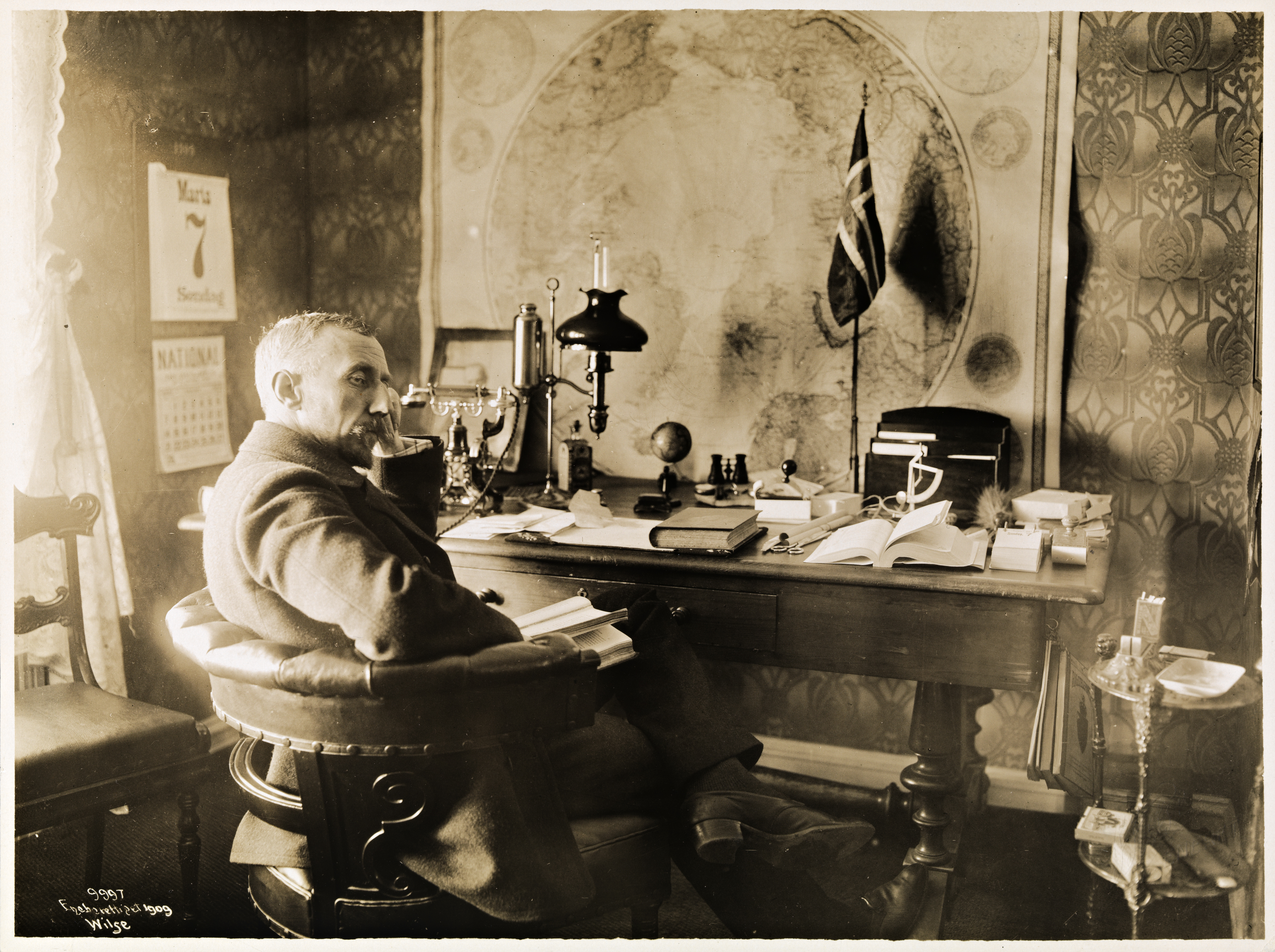 Dato / Date: 7. mars 1910 Fotograf / Photographer: Anders Beer Wilse (1865-1949) Sted / Place: Uranienborg, Svartskog Eier / Owner Institution: Nasjonalbiblioteket / National Library of Norway Lenke / Link: Bildesignatur / Image Number: bldsa_NPRA3129